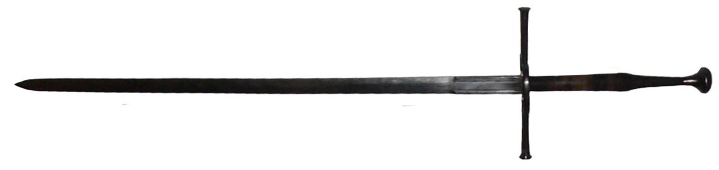 apparently a scan from an exhibition catalogue of the Morges museum, made in 2005. No further identification given by uploader. The sword is probably Swiss and dates to ca. 1500. The Carl Beck collection has a similar example, dated to the 2nd quarter of the 16th century, identified as the judicial sword (i.e. a ceremonial sword) of Sursee.